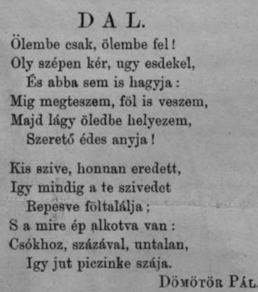 Poem of Dömötör Pál